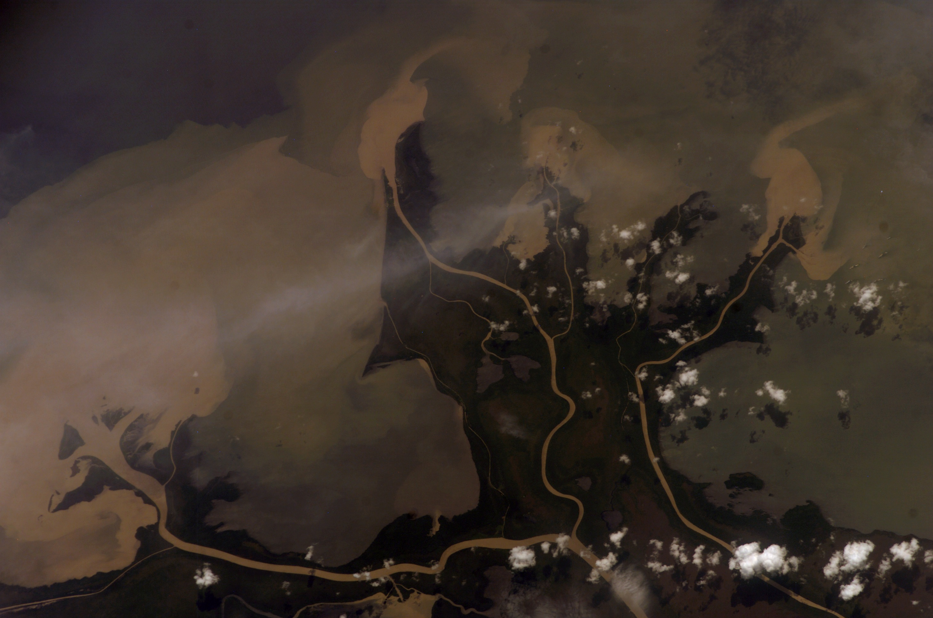 Atrato delta in Colombia, photographed from the International Space Station.